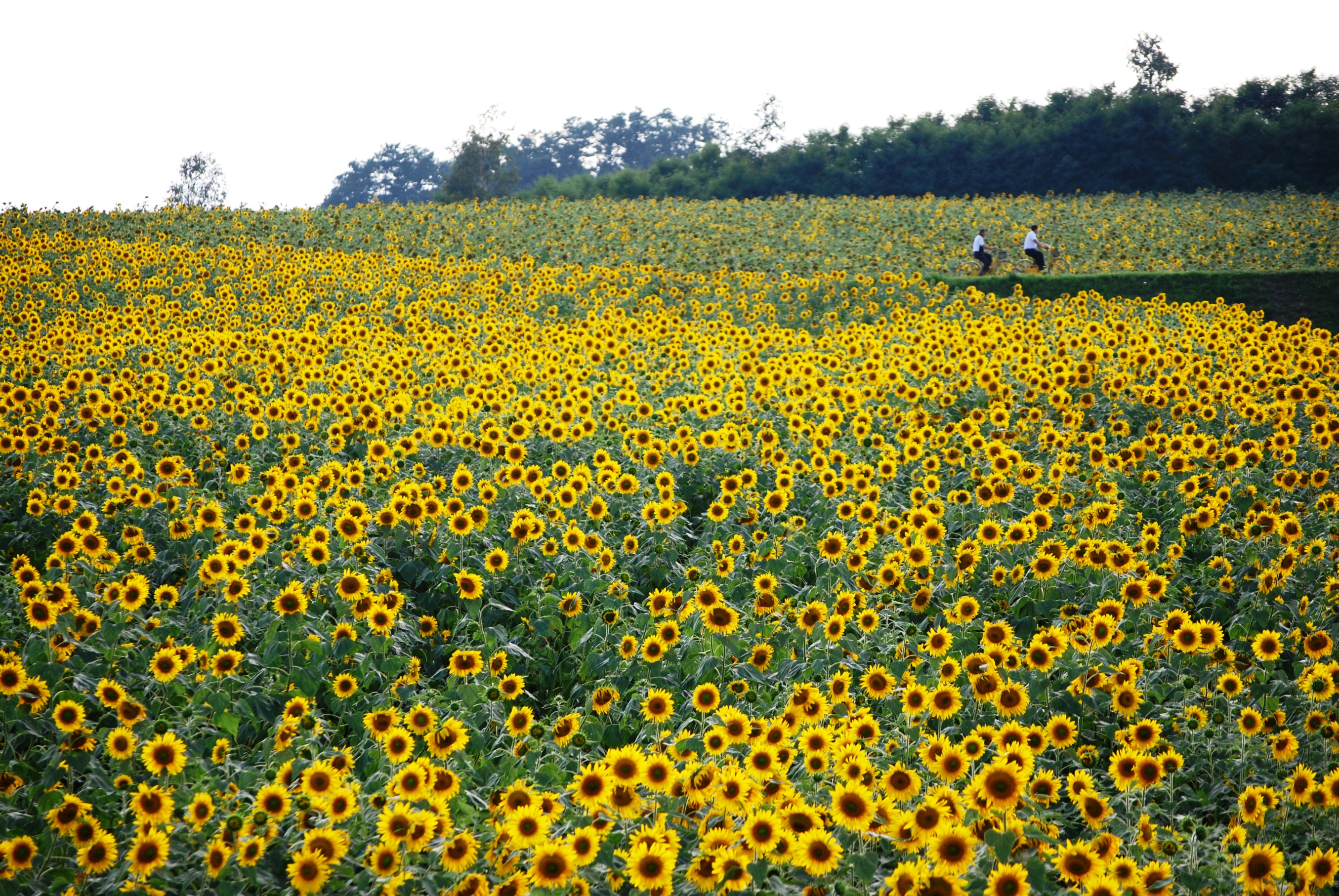 Hokuryu Sunflower Field in Hokuryu Town, Hokkaido, Japan